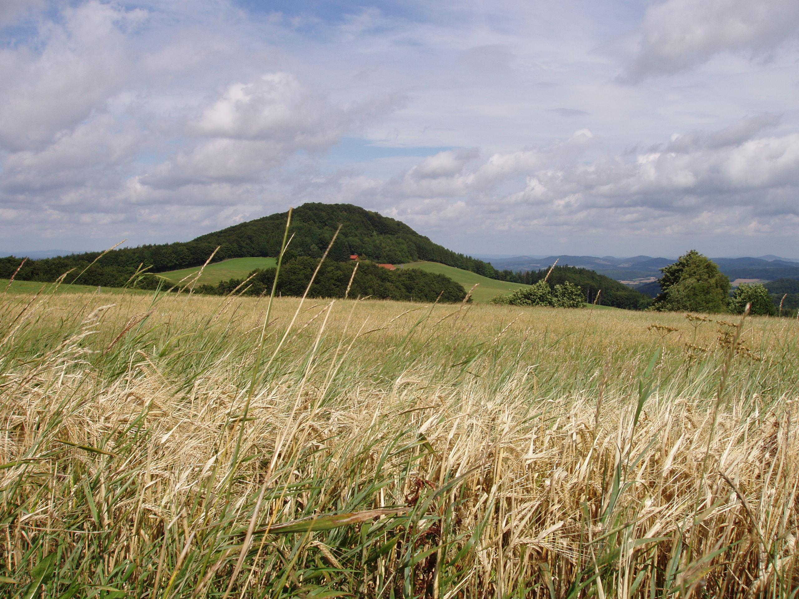 Stellberg in Rhön Mountains near Kleinsassen